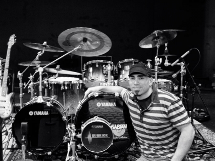 STEVE HASS WITH YAMAHA